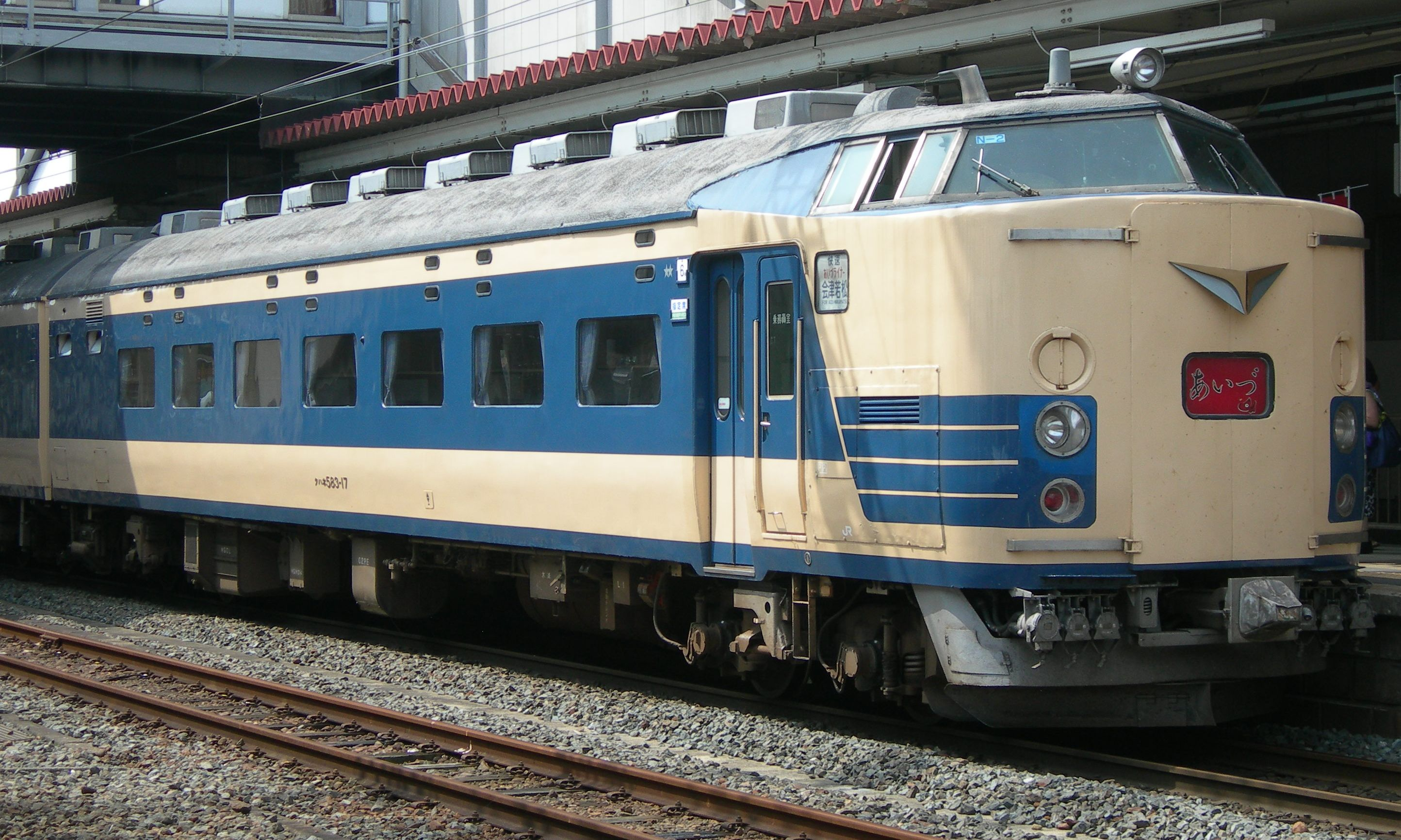 KuHaNe 583-17 of JR East 583 series EMU on an Aizu Liner service at Koriyama Station